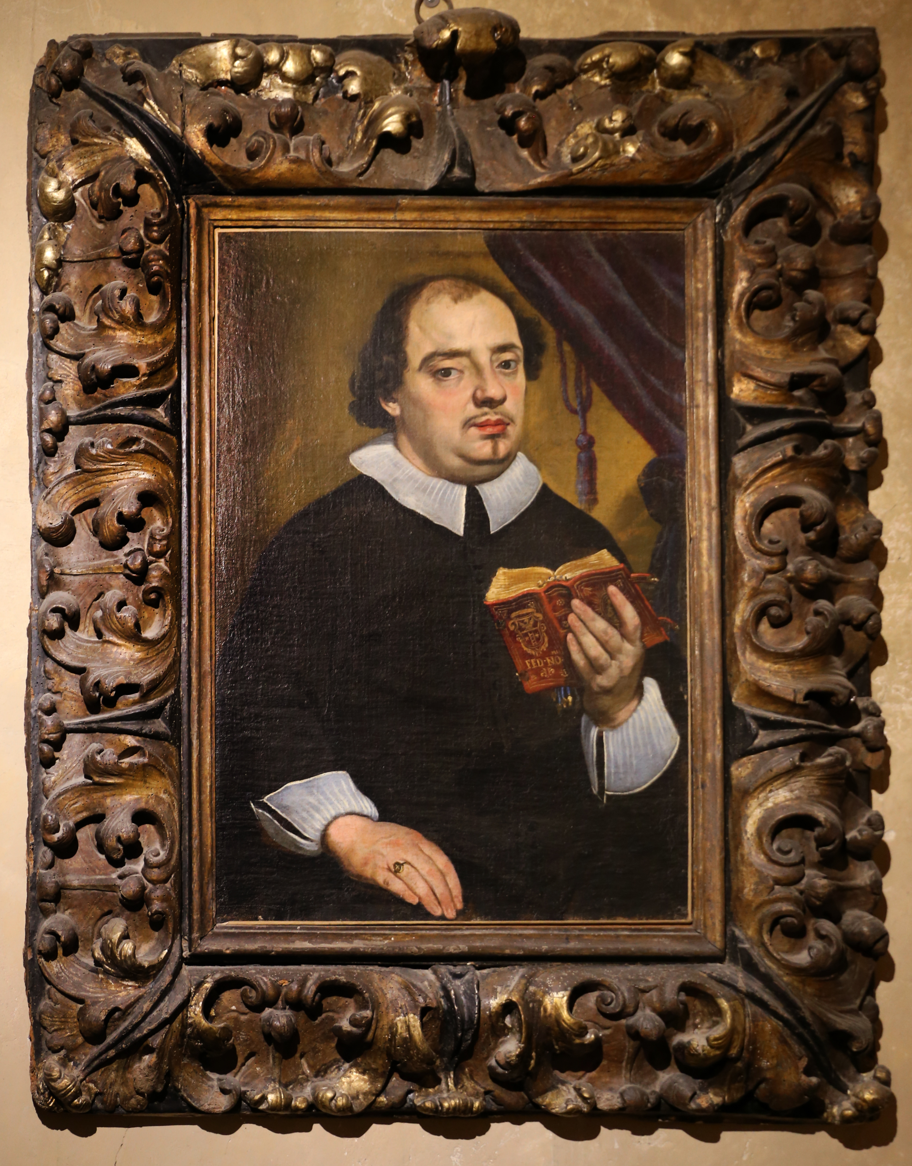 Paintings in the Museo di Palazzo Taglieschi